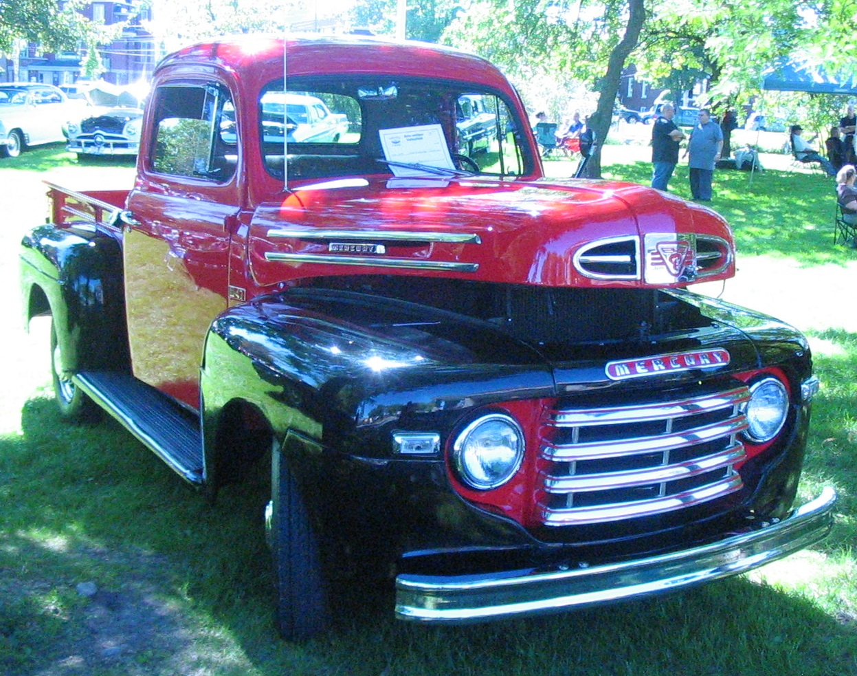 1949 Mercury M-Series photographed in Salaberry-De-Valleyfield, Quebec, Canada at Auto antique Salaberry-De-Valleyfield 2011.